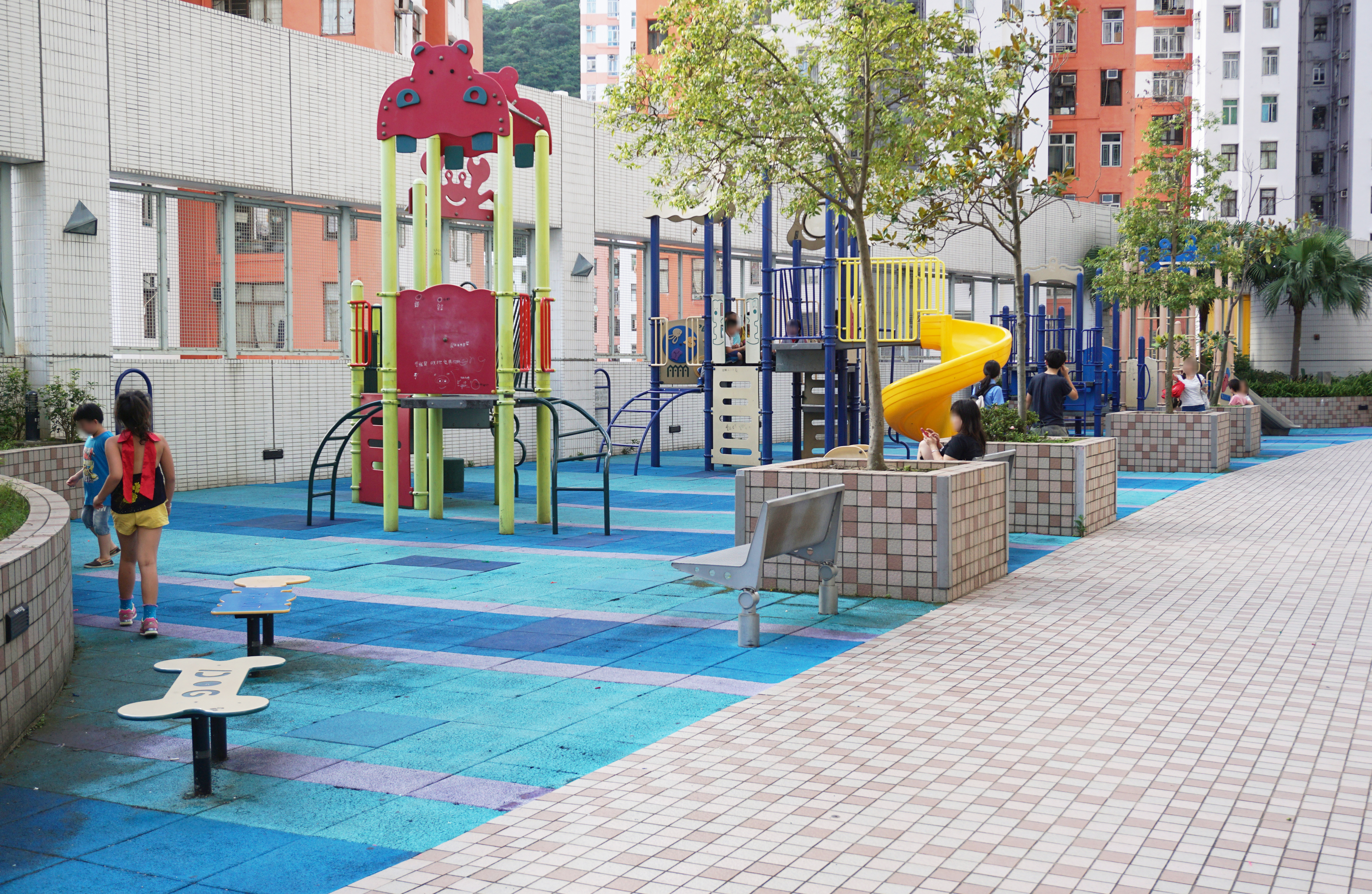 Shek Pai Wan Estate in Aberdeen, Hong Kong.